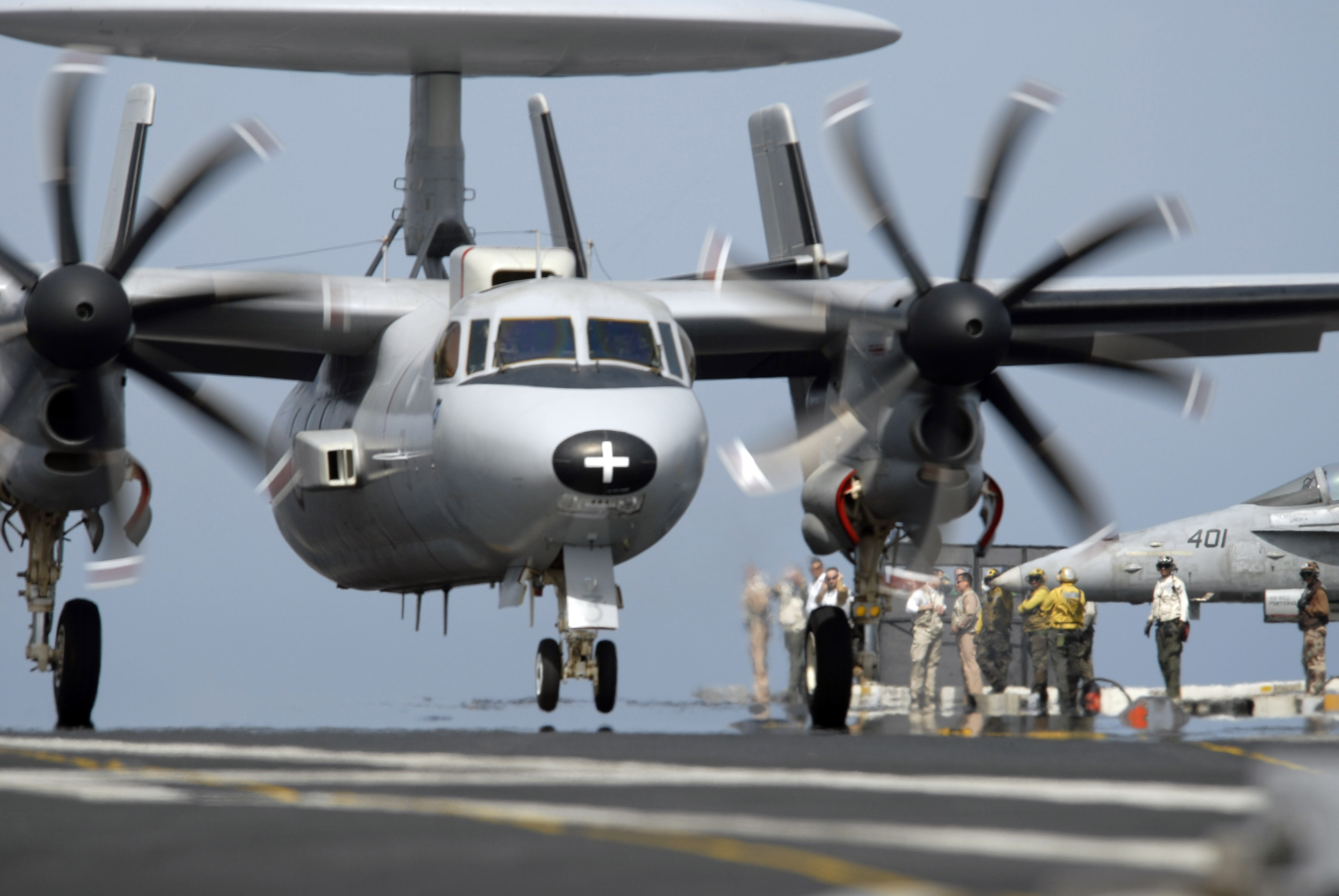 A French E-2C Hawkeye from the nuclear-powered aircraft carrier French Navy Ship Charles de Gaulle (R 91) performs a touch-and-go on the flight deck of the Nimitz-class aircraft carrier USS John C. Stennis (CVN 74). Stennis, as part of the John C. Stennis Carrier Strike Group, and Charles de Gaulle, the Flagship of Commander, Task Force 473, are operating in the North Arabian Sea. Stennis and Charles de Gaulle are conducting bilateral exercises and supporting multi-national ground forces in Afghanistan.